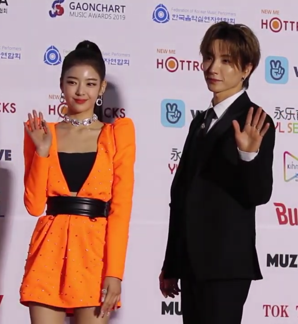 Picture of Leeteuk of Super Junior and Lia of Itzy at the red carpet of the 9th Gaon Chart Music Awards